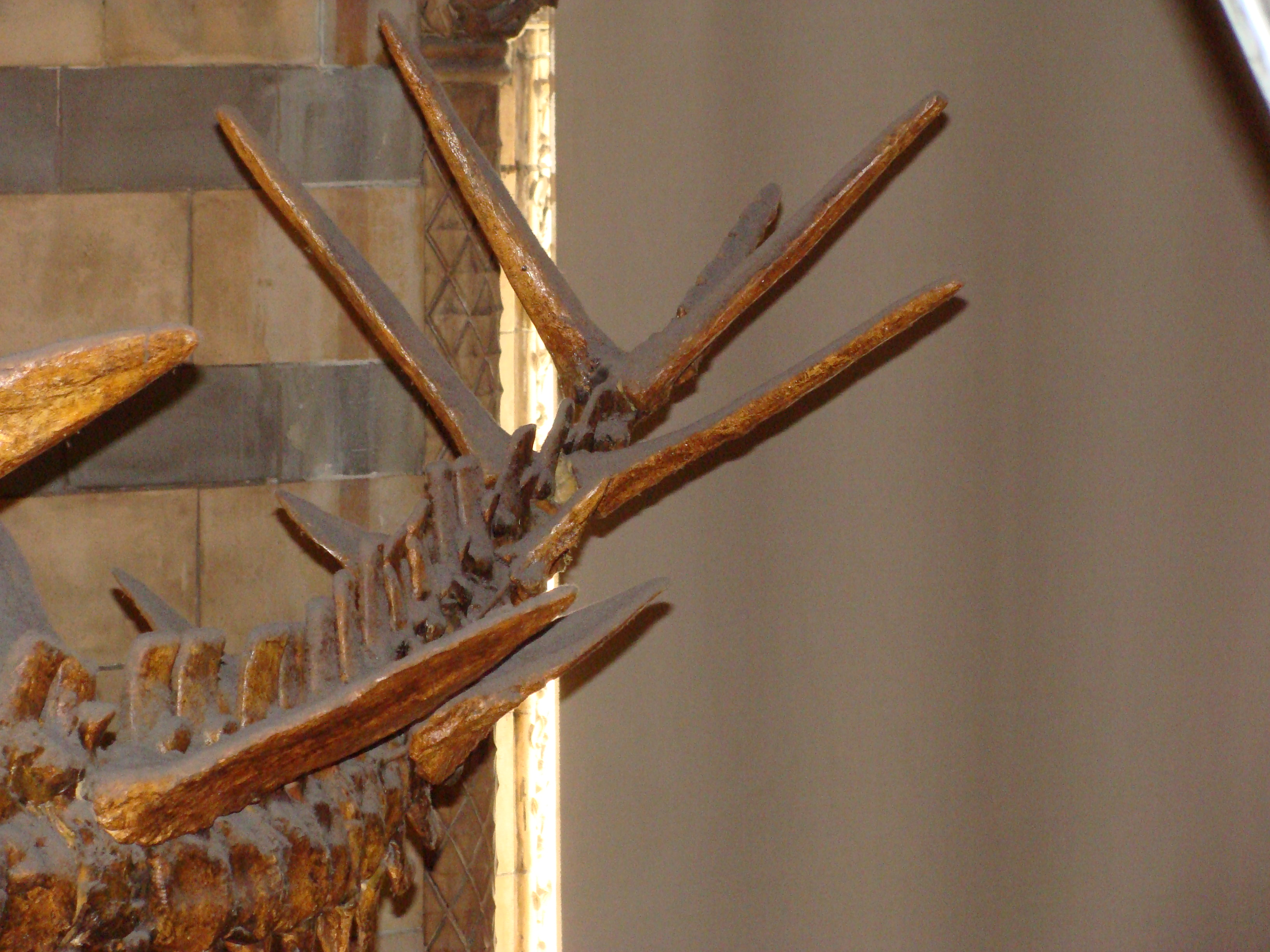 Tuojiangosaurus multispinus in the Natural History Museum of London